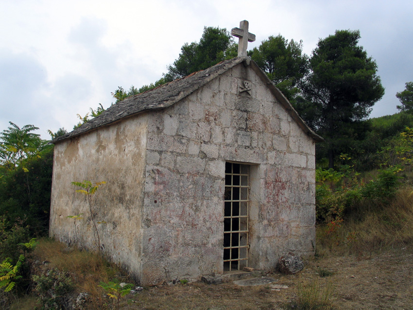 chapel of st. Michael near the village of Vrbanj on island Hvar